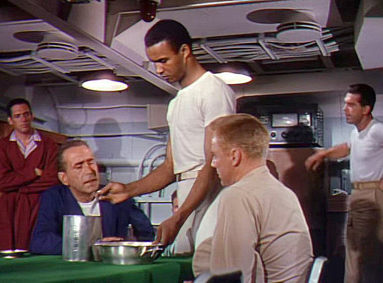 Screenshot from trailer for The Caine Muttiny (1954); no copyright